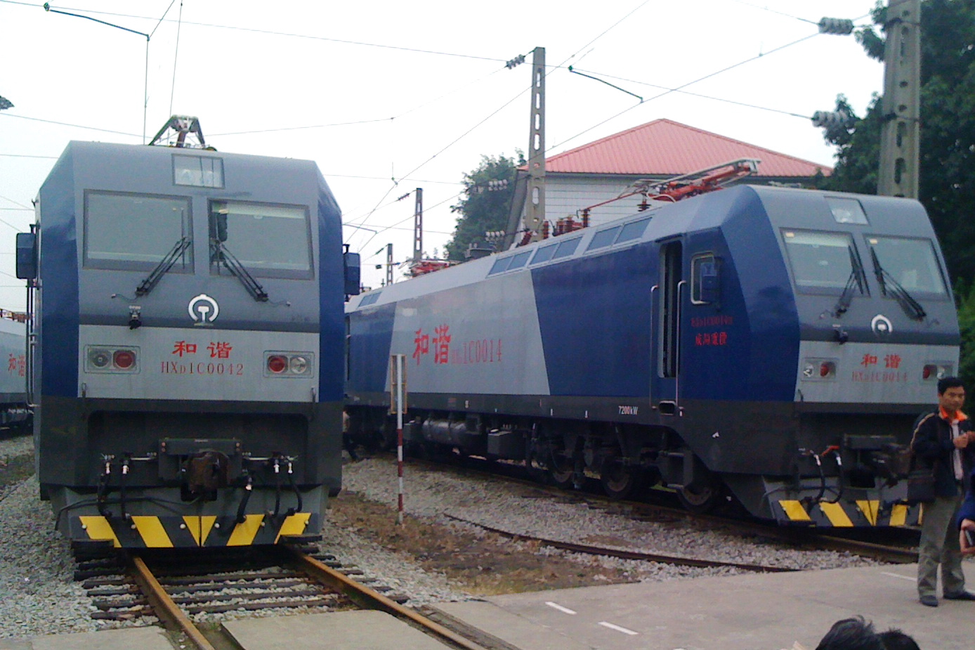 HXD1C Maintaining